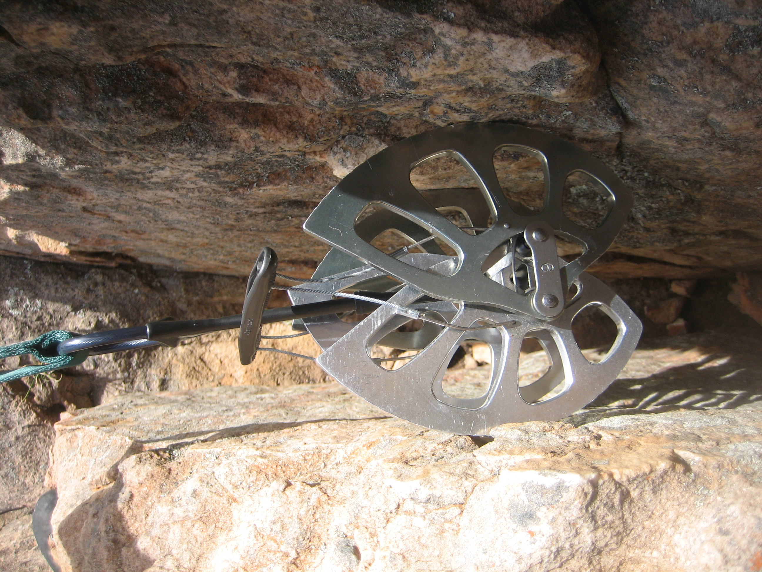 A Black Diamond Camalot number 6 placed in a crack.